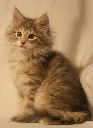 Norwegian forest cat amber colour, 2 months old